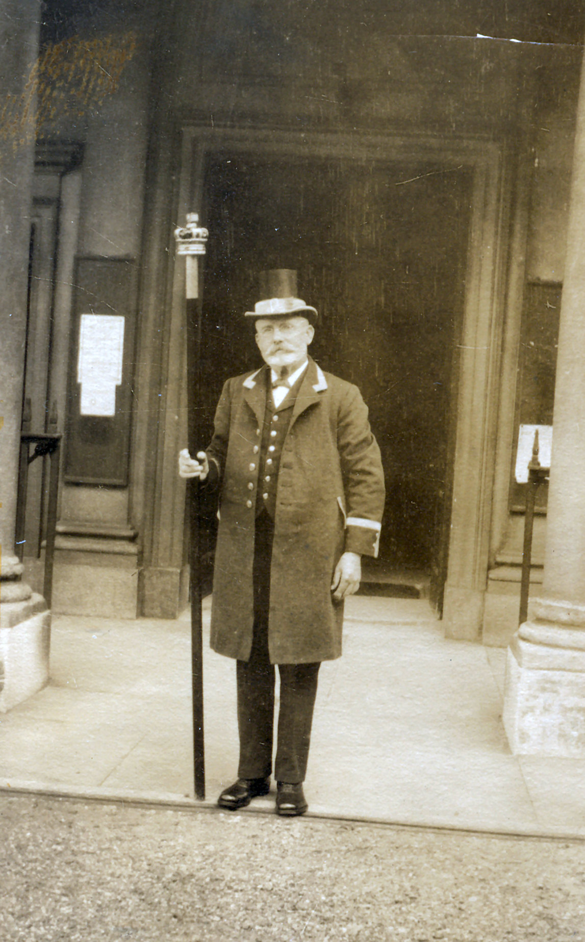 The Beadle at St Anne's Church, Kew. George Viner (1852-1935)